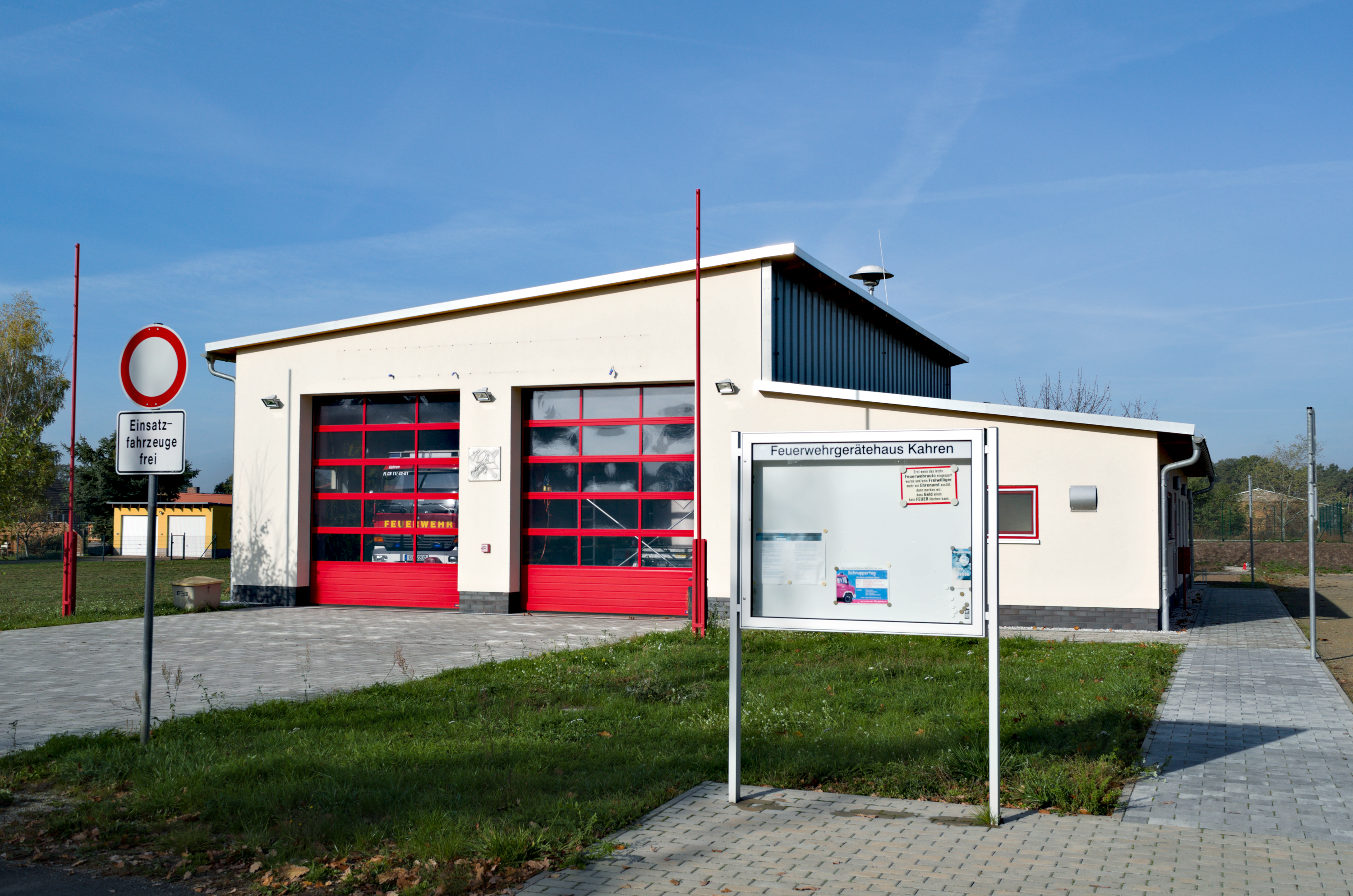 Fire station of the voluntary fire department Kahren, Am Park 42a in Cottbus-Kahren.